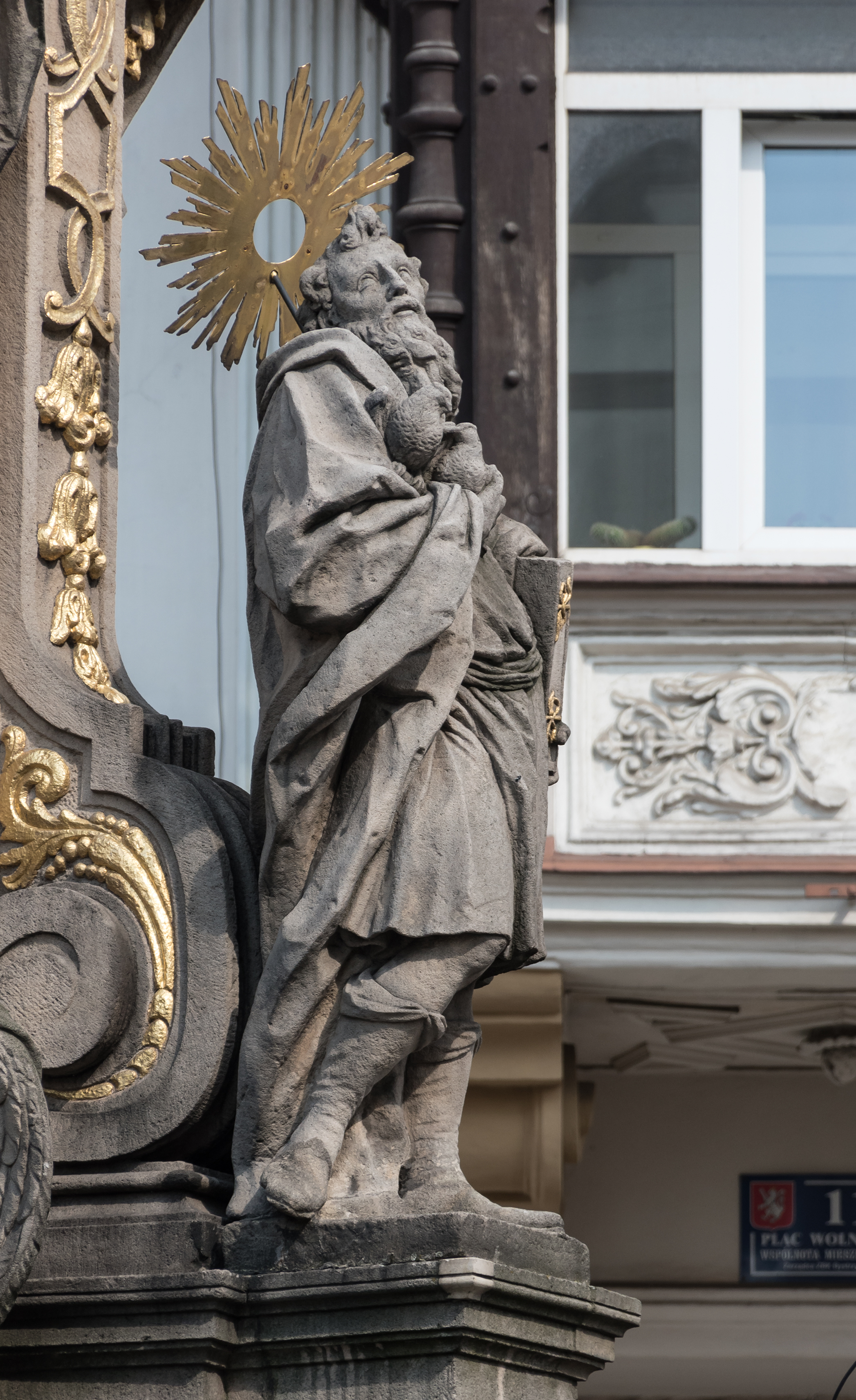 Trinity Column in Bystrzyca Kłodzka, St. Joachim